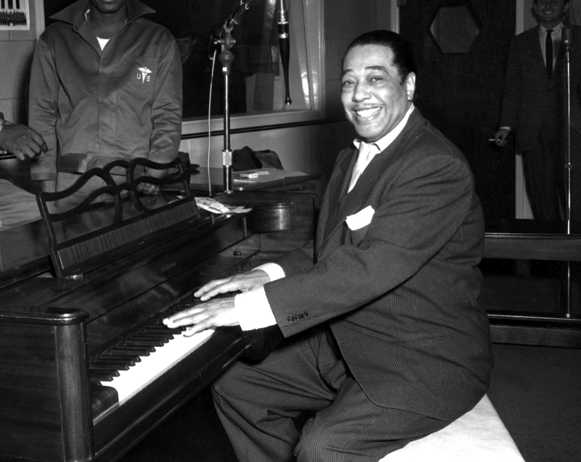 Duke Ellington, a famous jazz musician, poses with his piano at the KFG Radio Studio. KFG is Fitzsimons Army Medical Center's radio station.